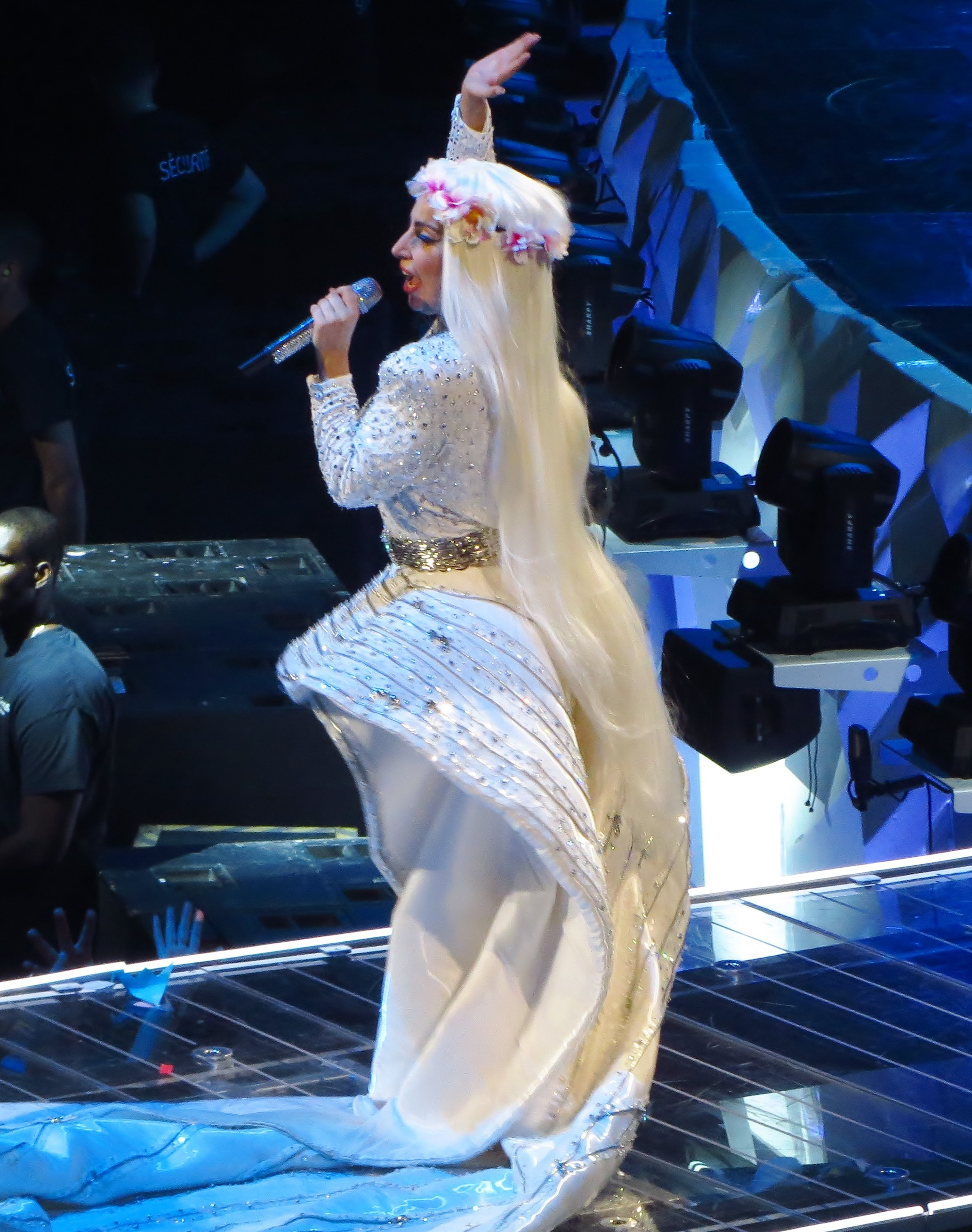 Gaga performing "Gypsy" on the ArtRave: The Artpop Ball tour